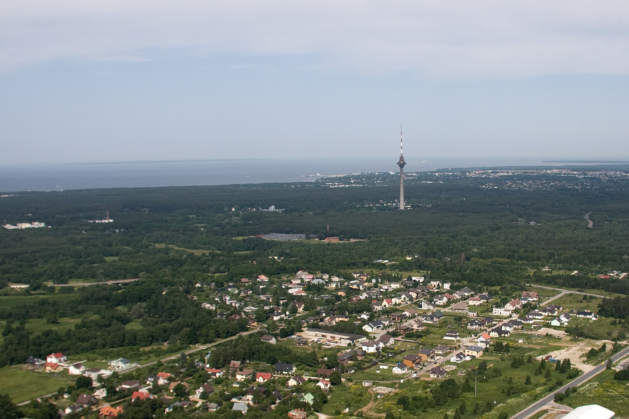 View from the Iru Power Plant at Iru and Tallinn TV Tower